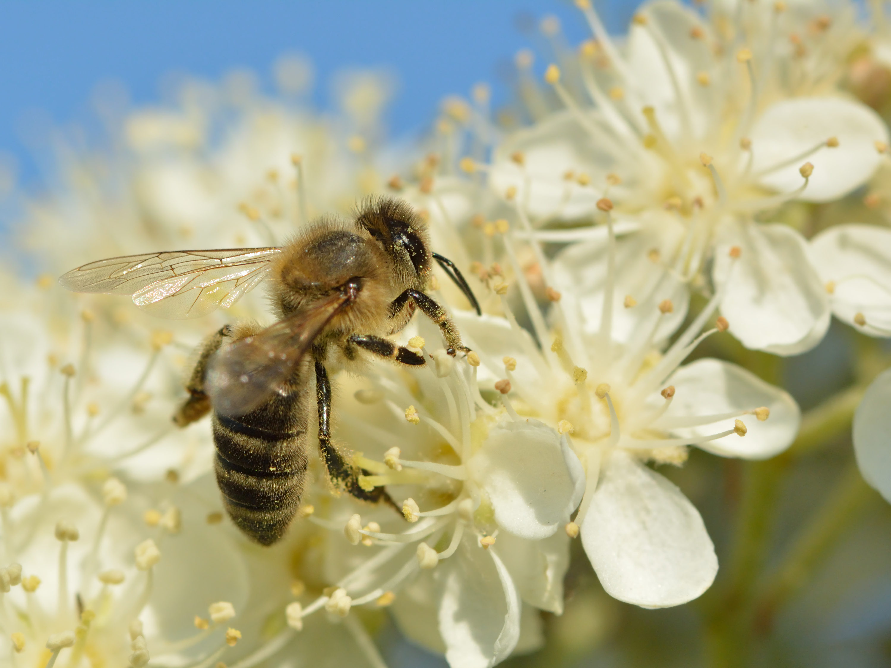 European honey bee (Apis mellifera) on the inflorescence of the Swedish whitebeam (Borkhausenia intermedia).